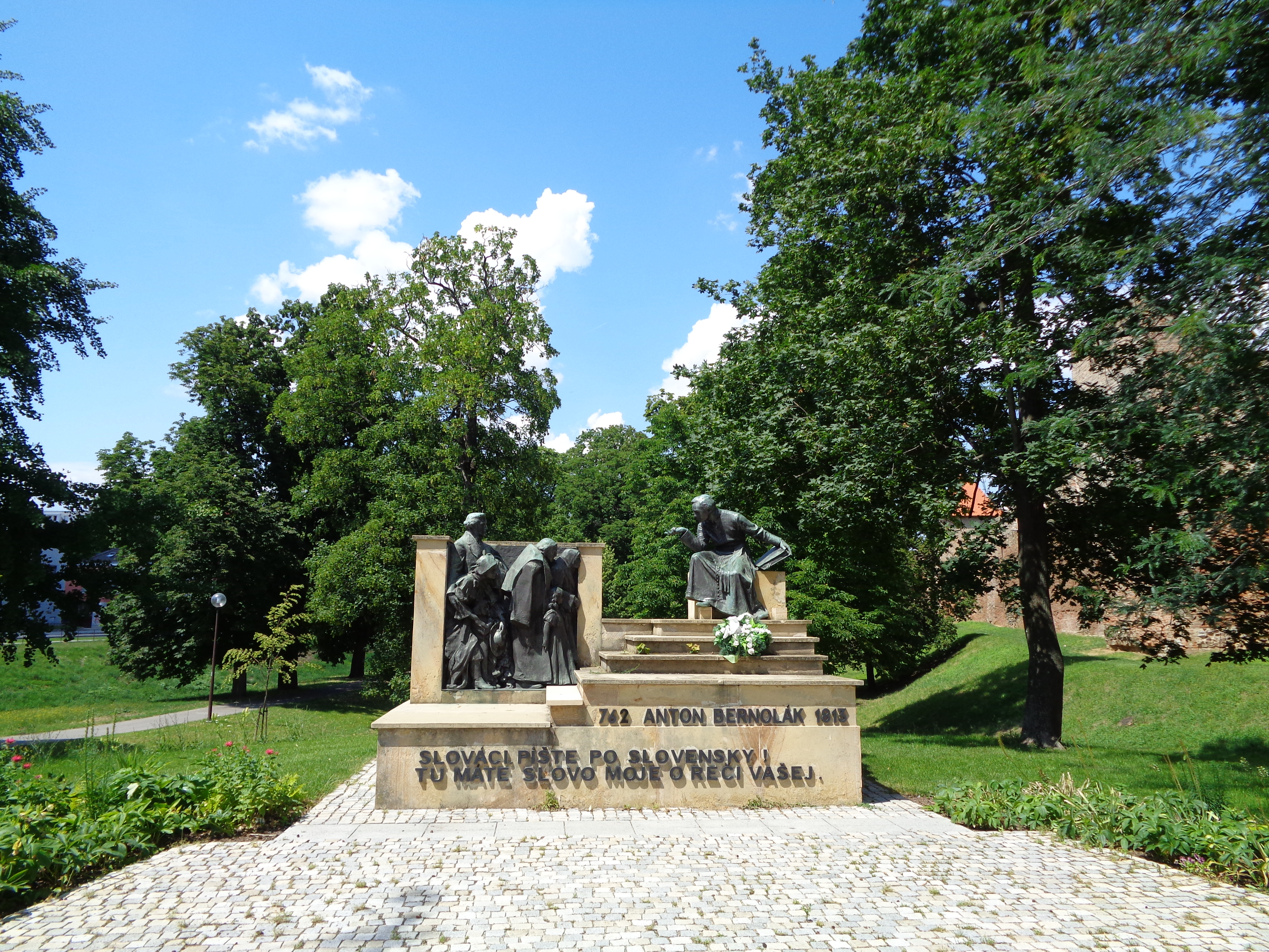 Anton Bernolák (1762 - 1813) was a Slovak linguist and the author of the first Slovak language standard.